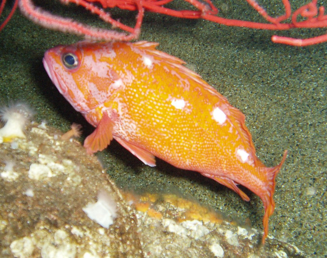 Sebastes rosaceus (Rosy rockfish). Courtesy of the Monterey Bay Aquarium.